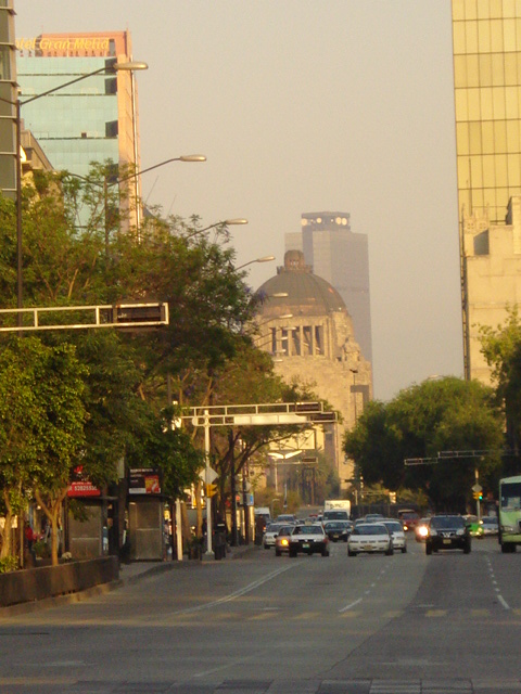 Pemex Tower in Mexico City.